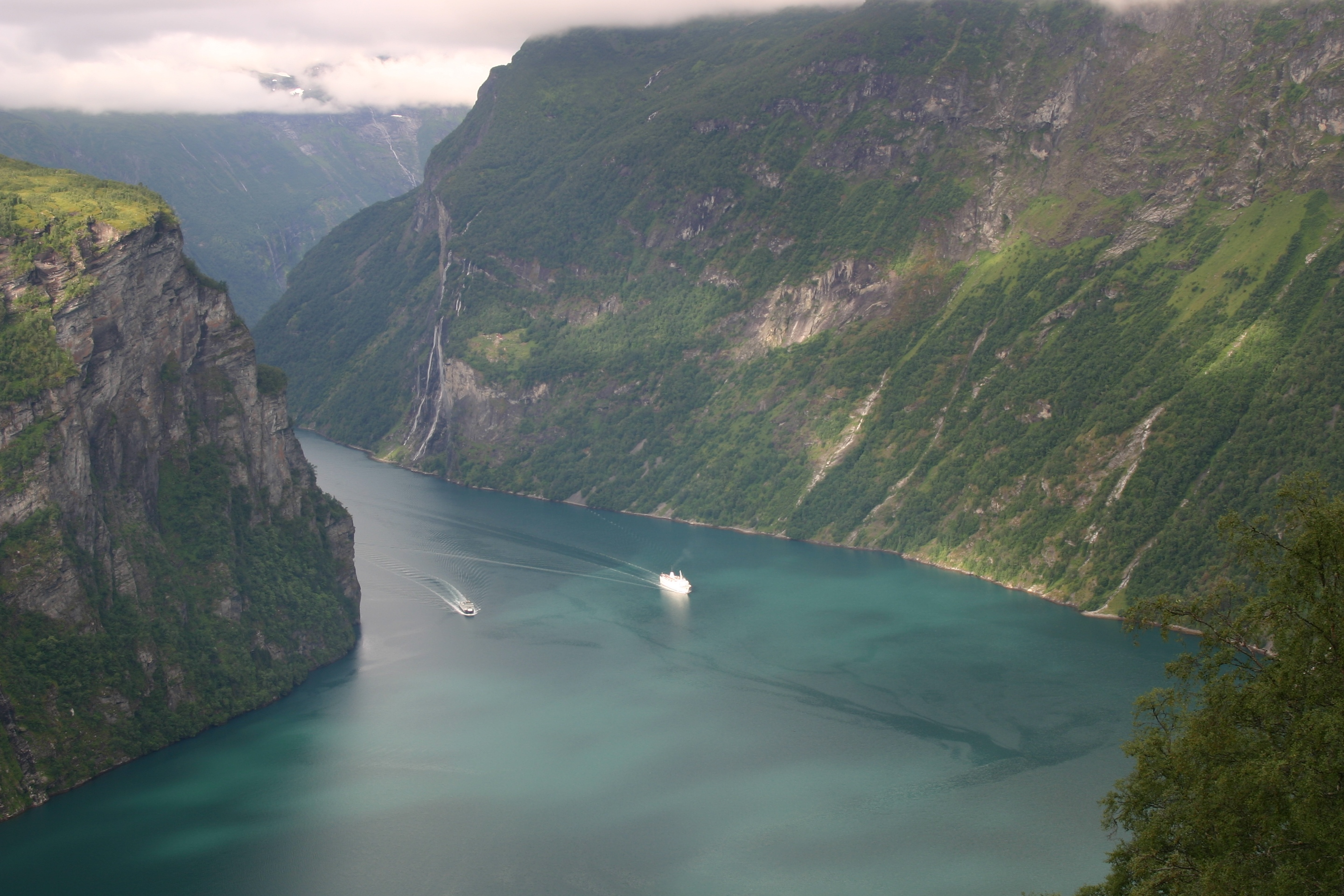 Geiranger Fjord. One can distinguish the seven sisters waterfall